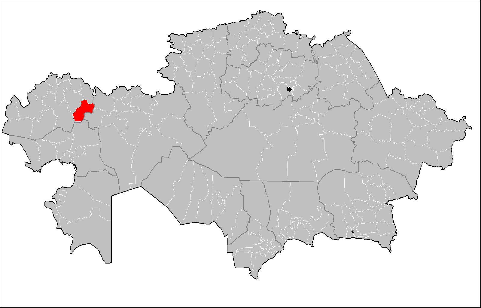 Map of Karatobe District in Kazakhstan. for public domain use, using MapInfo Professional v8.5 and various mapping resources.